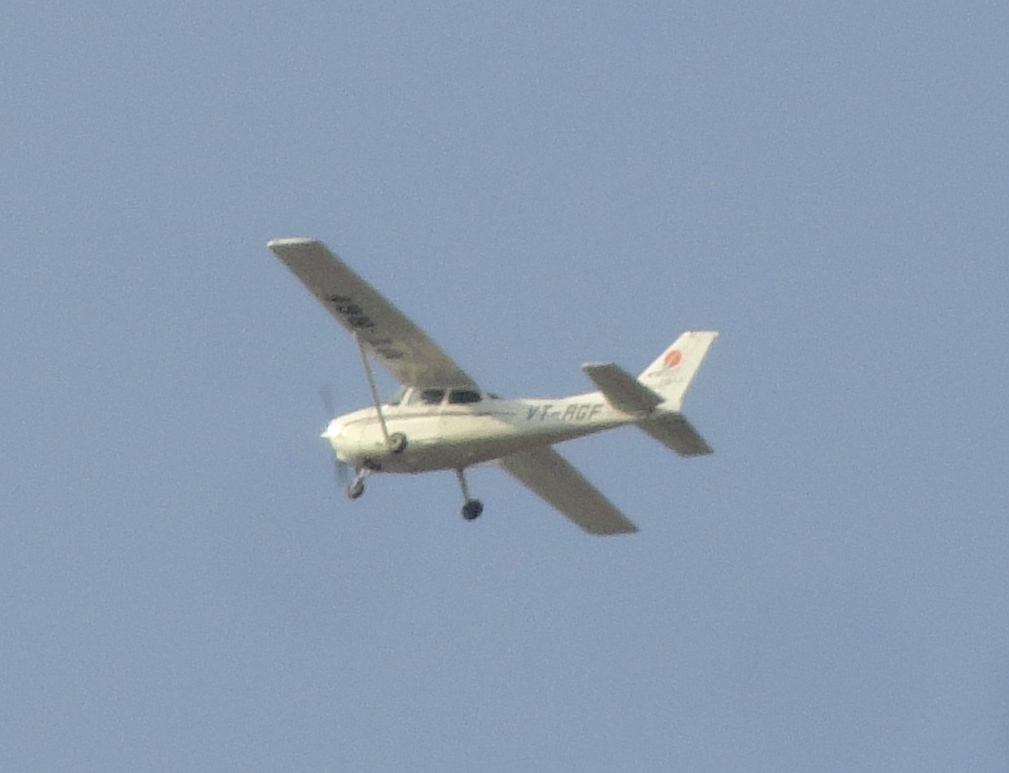 Training plane